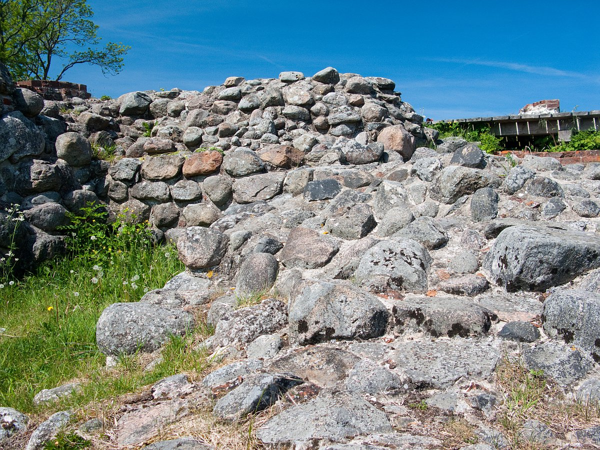 The base of the bridgehead at Søborg Castle (Danish: Søborg Slot), which in its heyday, was the strongest castle in Denmark ,and was also used as a prison (Jens Grand was imprisoned here in the 13th century). It was inhabited until the Count's Feud in 1535 (Søborg_Castle